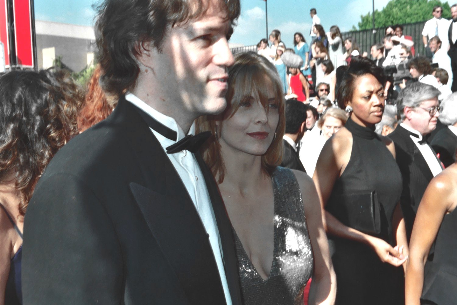 1994 Emmy Awards NOTE: Permission granted to copy, publish, broadcast or post any of my photos, but please credit "photo by Alan Light" if you can. Thanks. Scanned from the original 35MM film negative.